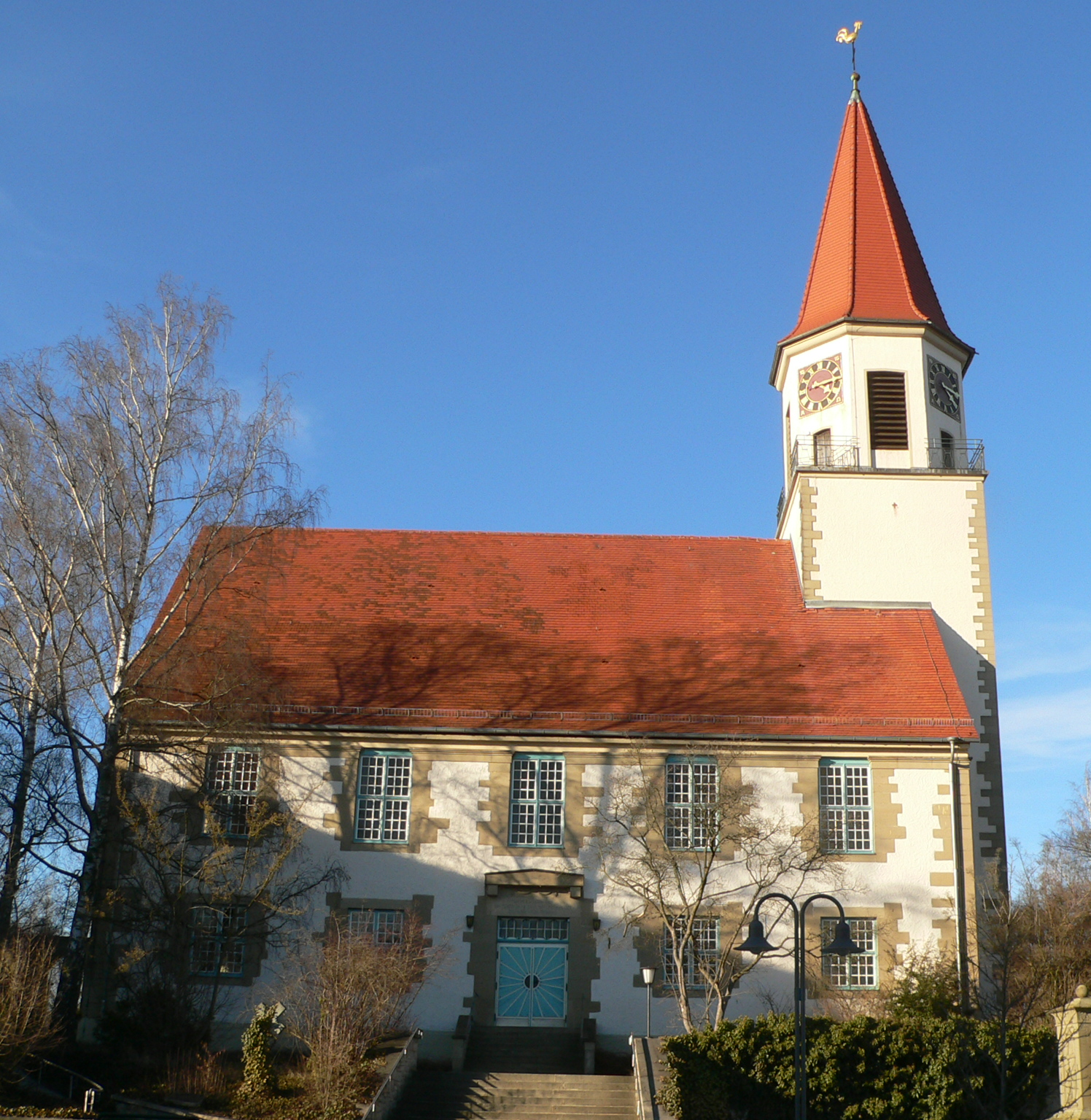 Church Nikolauskirche in Deckenpfronn, Germany